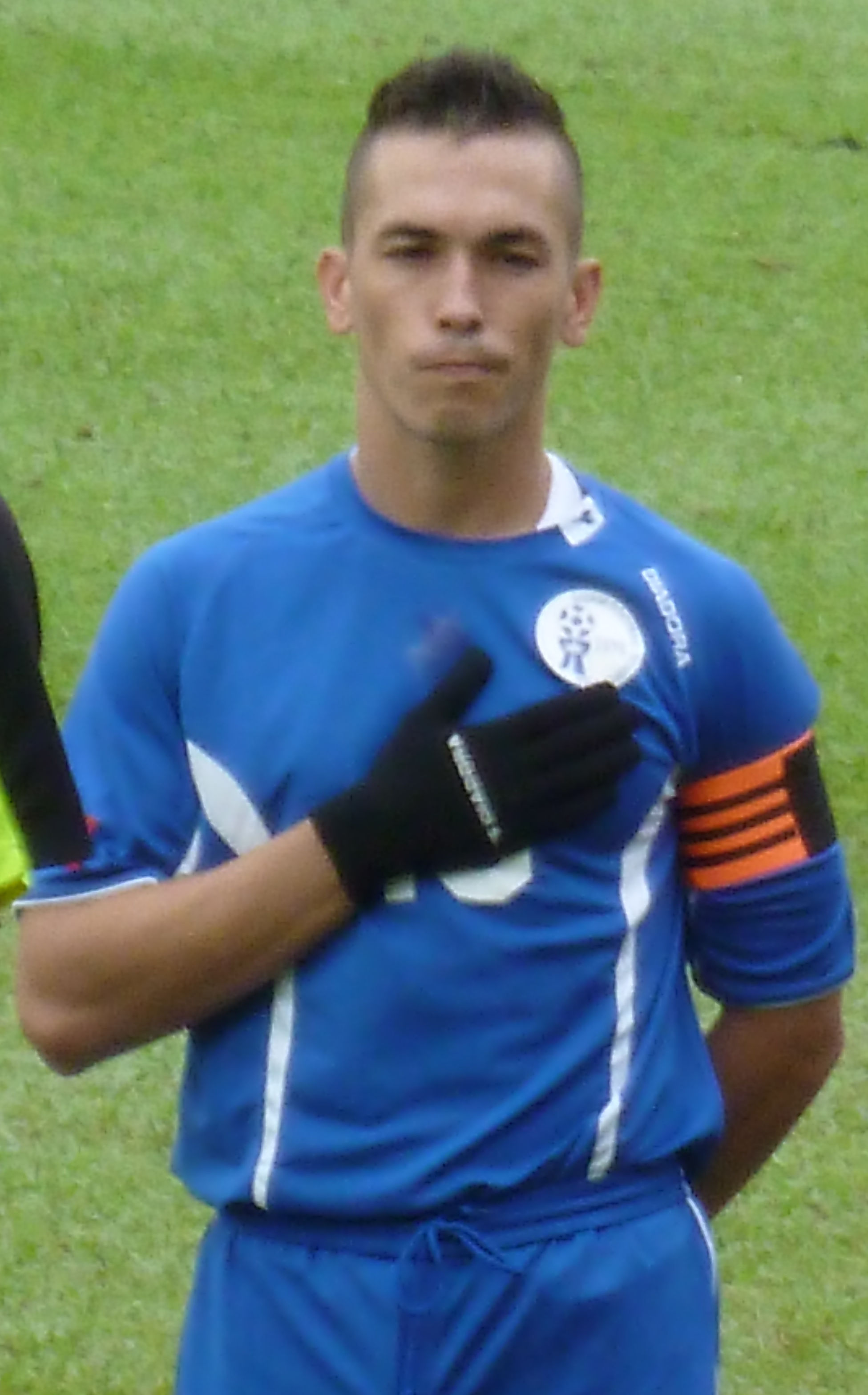 Jason Cunliffe (01 Dec 2012, EAFF East Asian Cup 2013 Preliminary Competition Round 2, Guam vs Hong Kong, Mong Kok Stadium)中文（香港）: 古連菲 (01 Dec 2012, 2013東亞盃外圍賽第二圈, 關島 vs 香港, 旺角大球場)